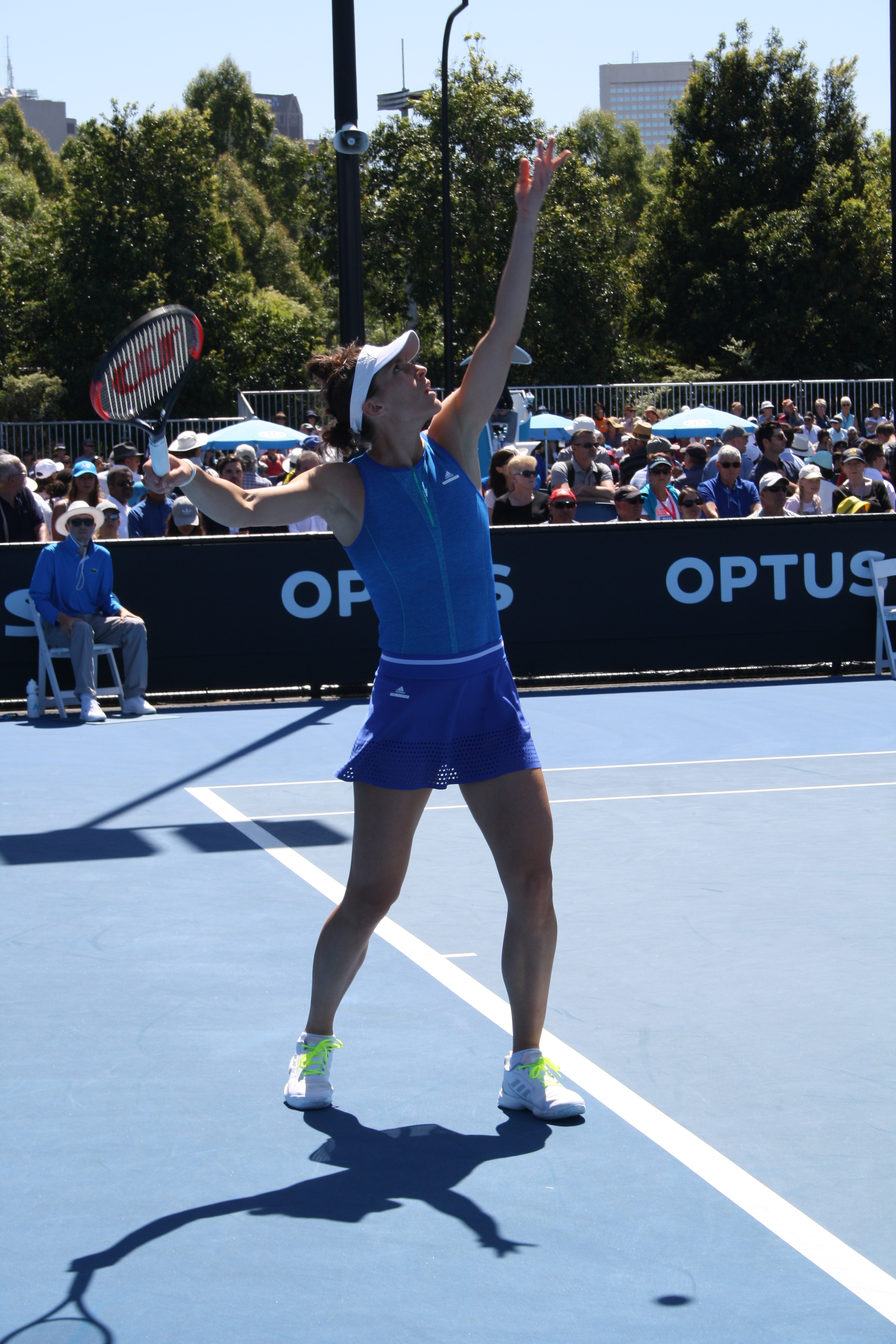 Andrea Petković, January 2017